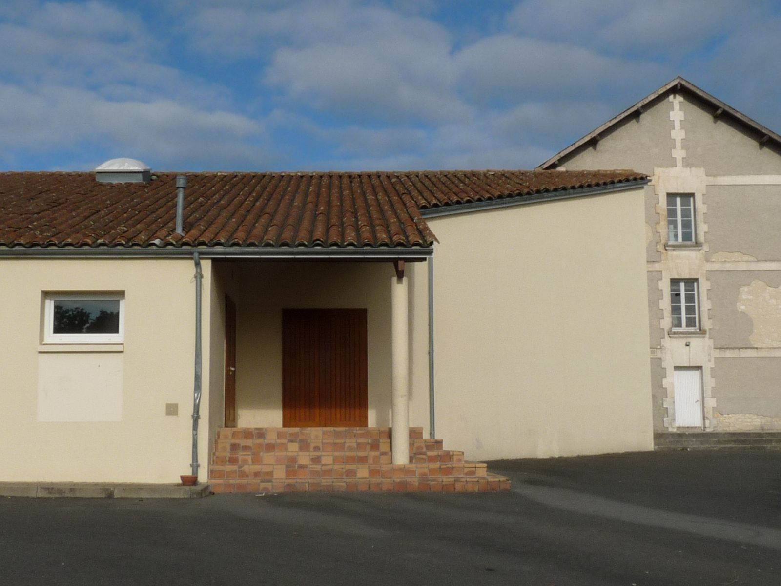 community hall of Barret, Charente, SW France